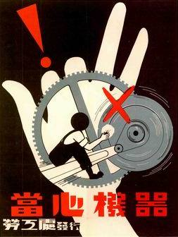 A 1955 HKGovt poster "Beware of machine"